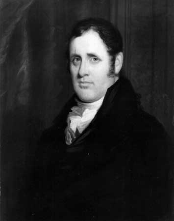 Martin Van Buren. Library of Congress description: "Martin Van Buren, ex-pres of U.S."